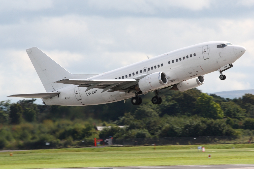 Boeing 737-522, LY-AWF, c/n 26707 of Sky Europe Airlines, she previously saw service with United Airlines & Canjet Airlines, her first flight was on 26/07/1993. Picture taken at Manchester 31/08/2009.